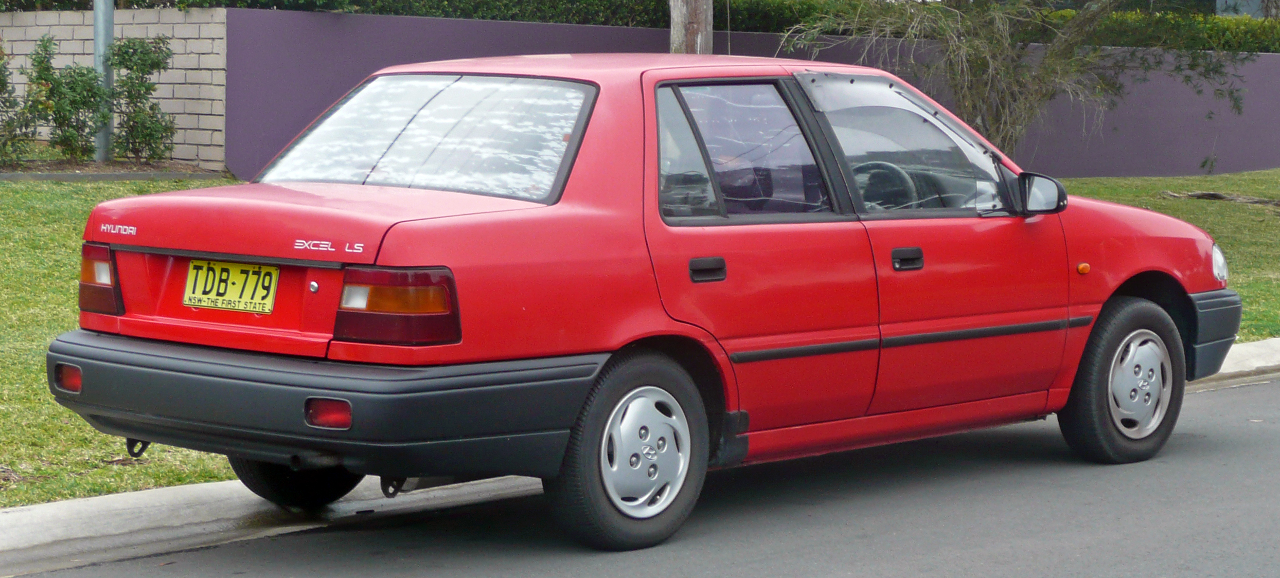 1994 Hyundai Excel (X2) LS sedan. Photographed in Cronulla, New South Wales, Australia.